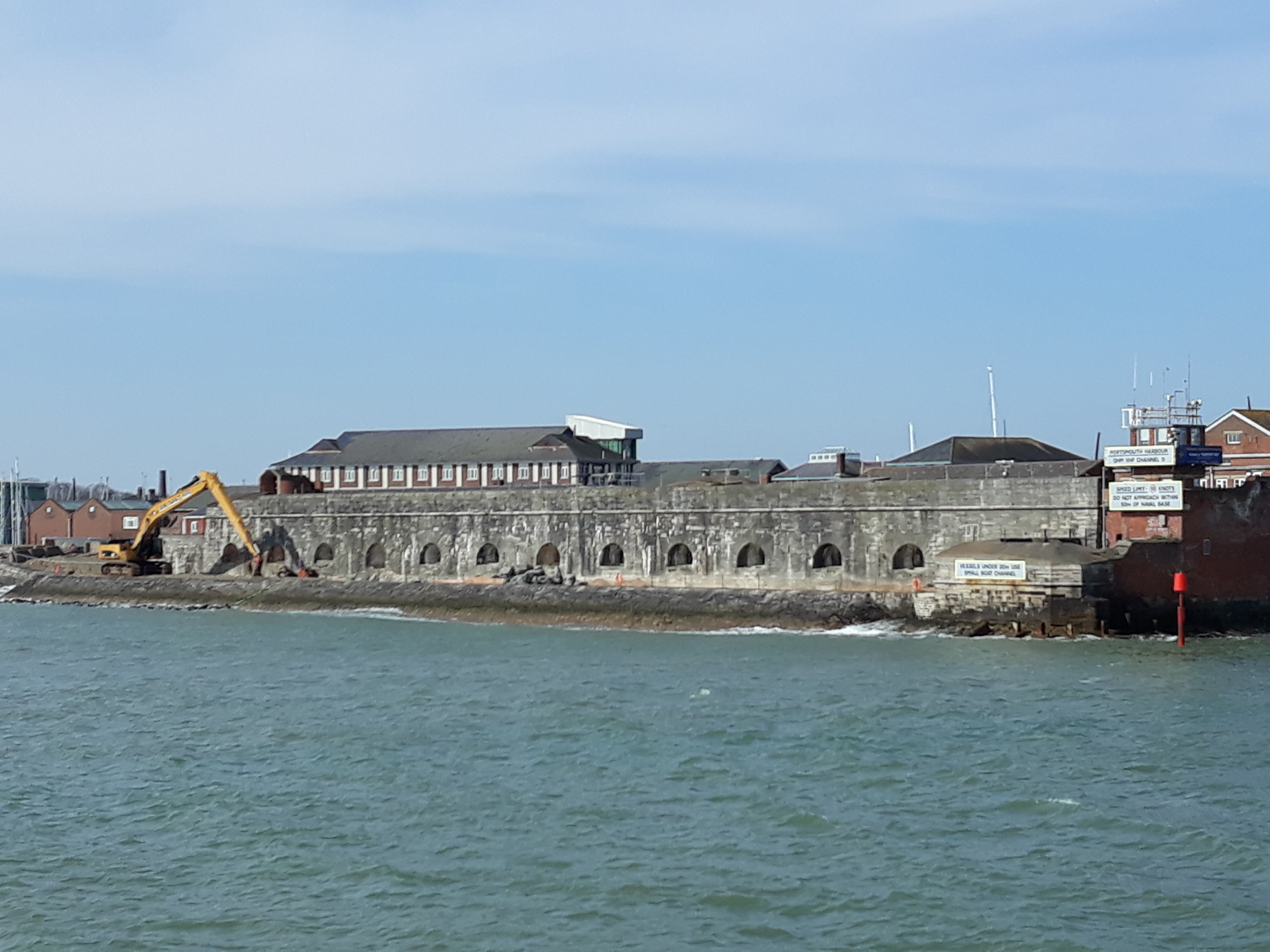 Fort Blockhouse, Gosport, Hampshire, England. Scheduled monument.